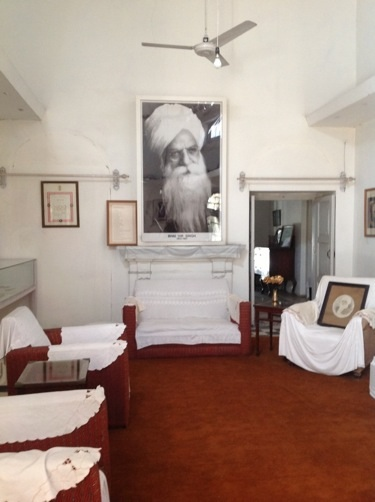 View gives a glimpse of drawing room of Bhai Vir singh memorial house preserved in his memory for public view.